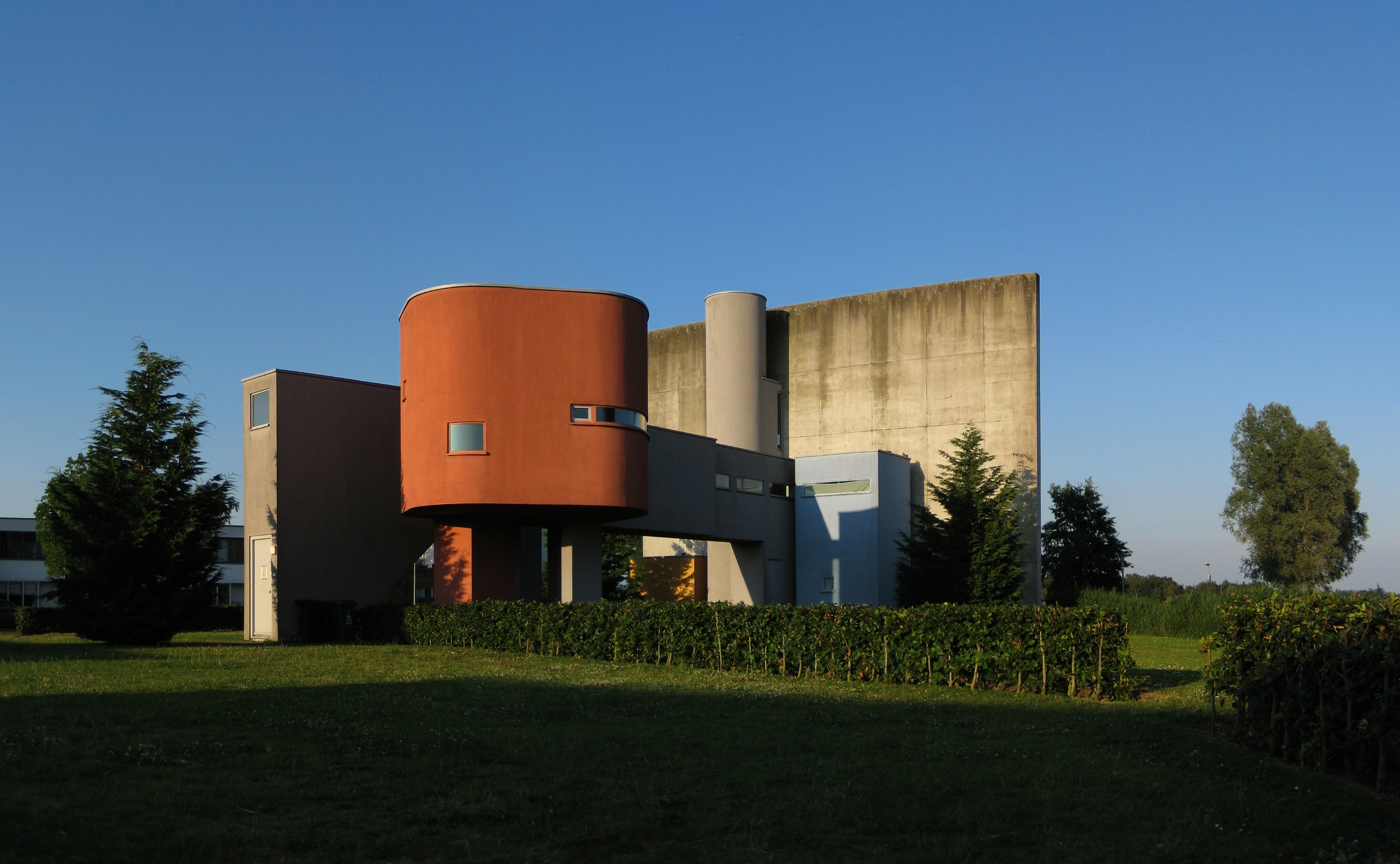 Wall House #2, Groningen, The Netherlands. The building, designed by the American architect John Hejduk (1929-2000), was built in 2001.